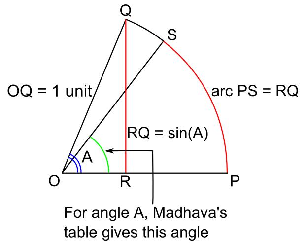 An image created by me for explaining the numbers specified in Sangamagrama Madhava's sine table.